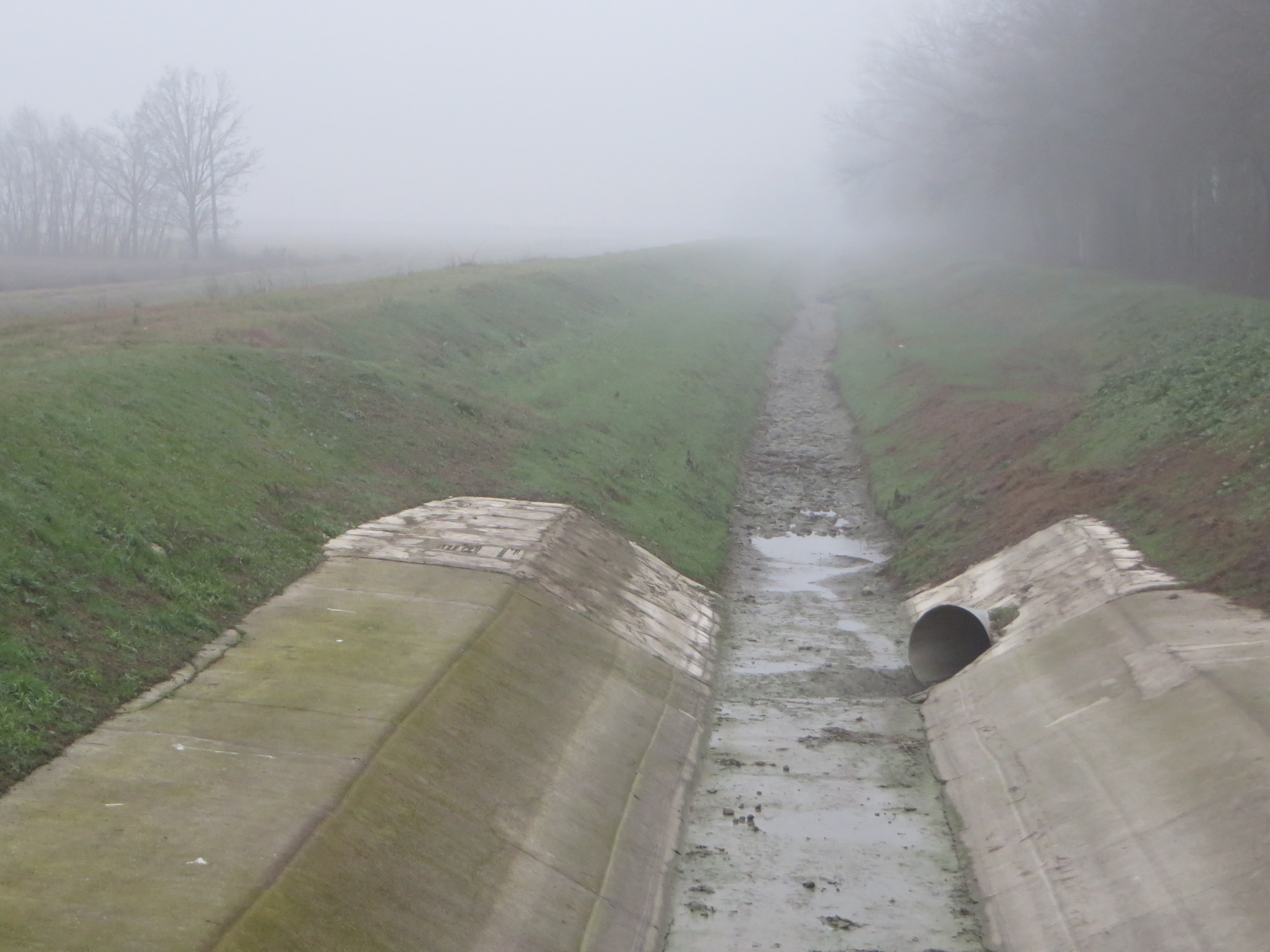 Rigosa canal